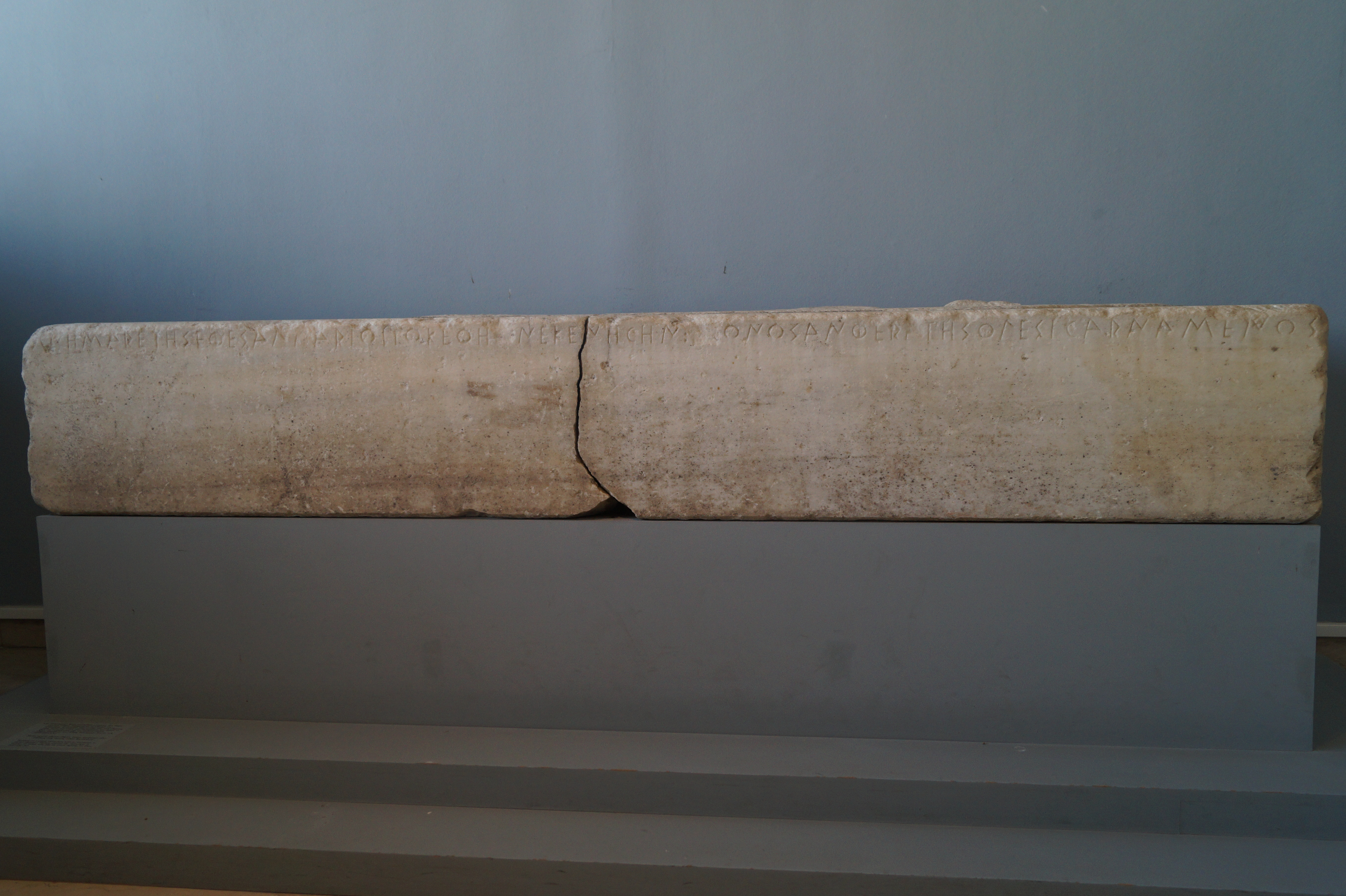 Amphipoli, Makedonia, Greece: Archaeological Museum of Amphipolis: Pedestal of the equestrian Tokes. Found in the north gate of Amphipolis. Parian inscription: The Parians honour Tokes for defending Eion.